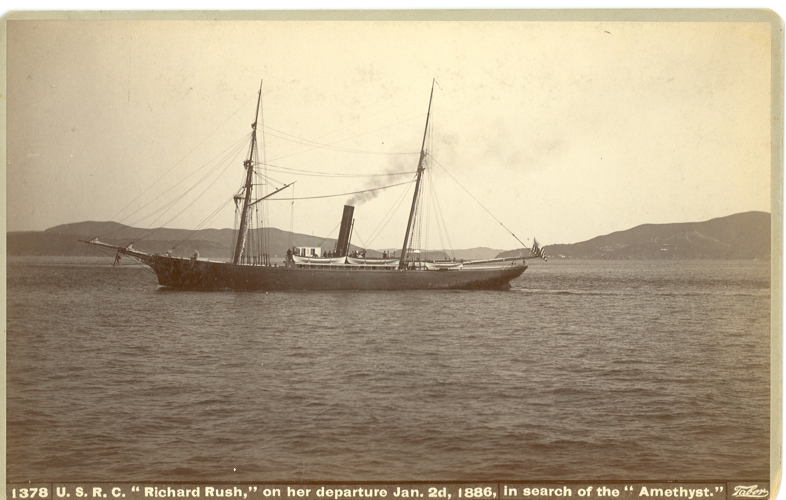 U.S.R.C. "Richard Rush," on her departure Jan. 2d, 1886, in search of the "Amethyst."